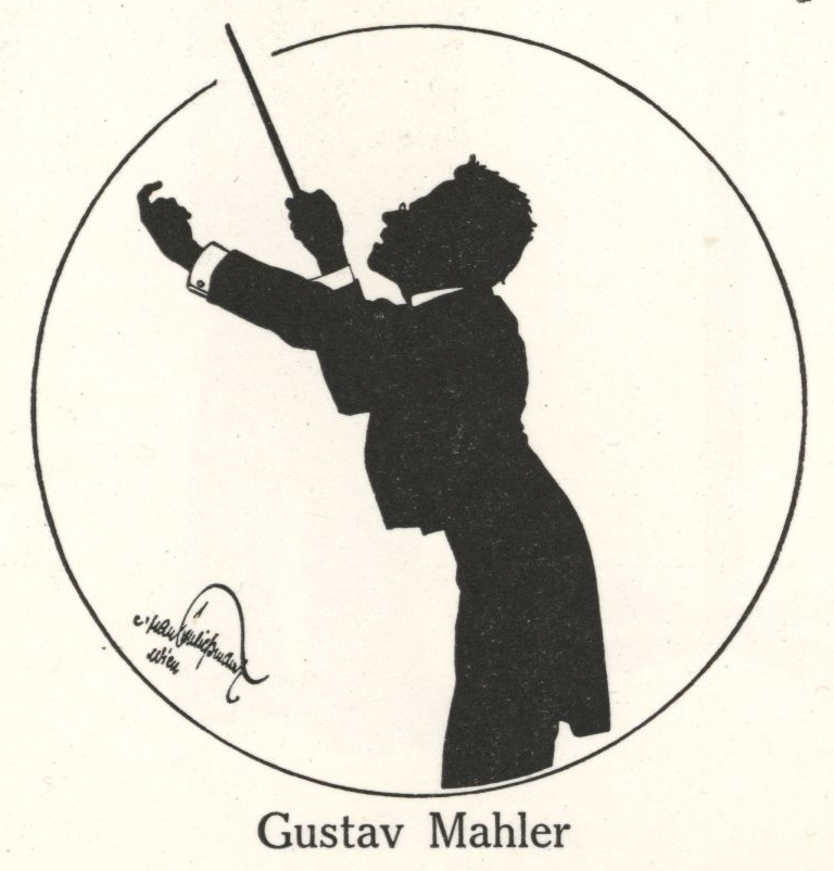 Gustav Mahler (1860–1911); silhouette by Hans Schließmann